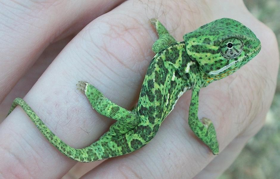 Chamaeleo dilepis at Ilanda Wilds, Amanzimtoti, South Africa